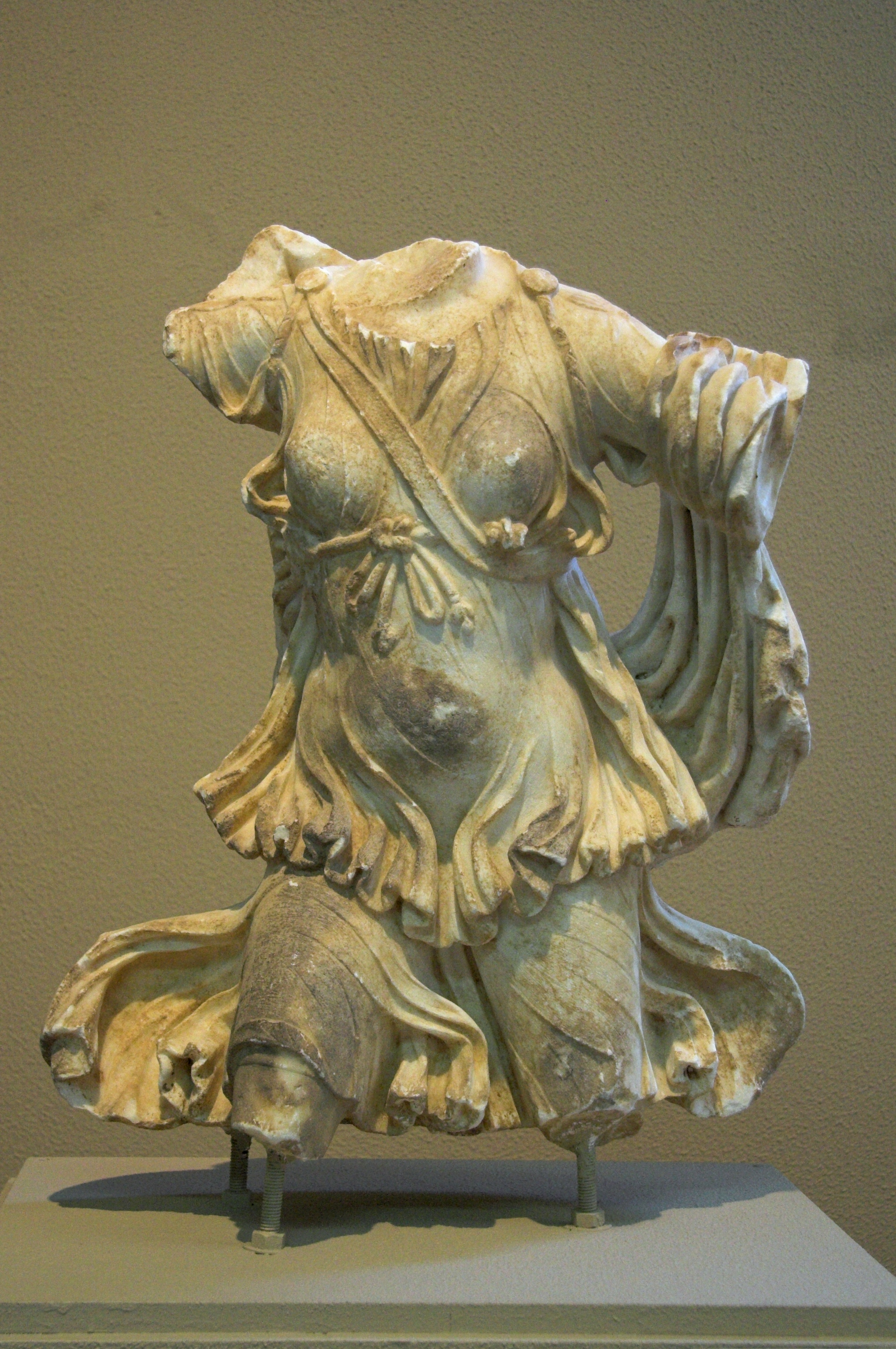 Artemis, marble torso of Paleopolis Andre, Roman copy of a Hellenistic work, the second century BC. Archaeological Museum of Andros (Chora), No. 8.